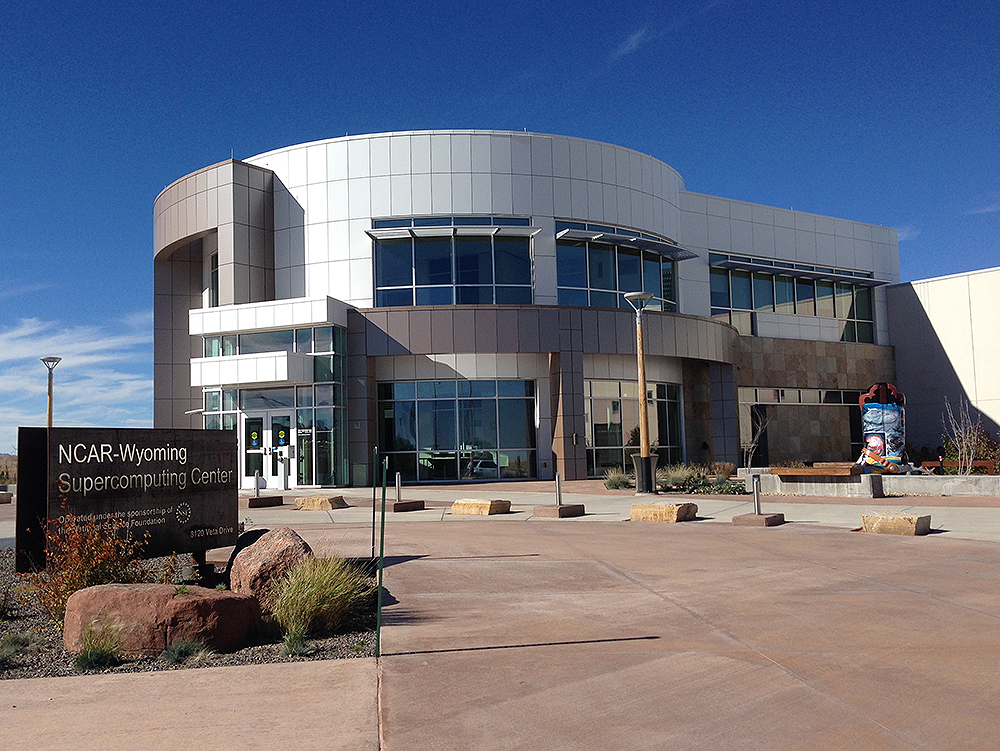 With NSF support, the NCAR-Wyoming Supercomputer Center (NWSC) in Cheyenne, Wyo., houses high performance computers, mass storage (data archival) systems and related systems and infrastructure. The center is operated by the National Center for Atmospheric Research (NCAR). Find out more about the NWSC at . Credit: Karen Pearce, NSF